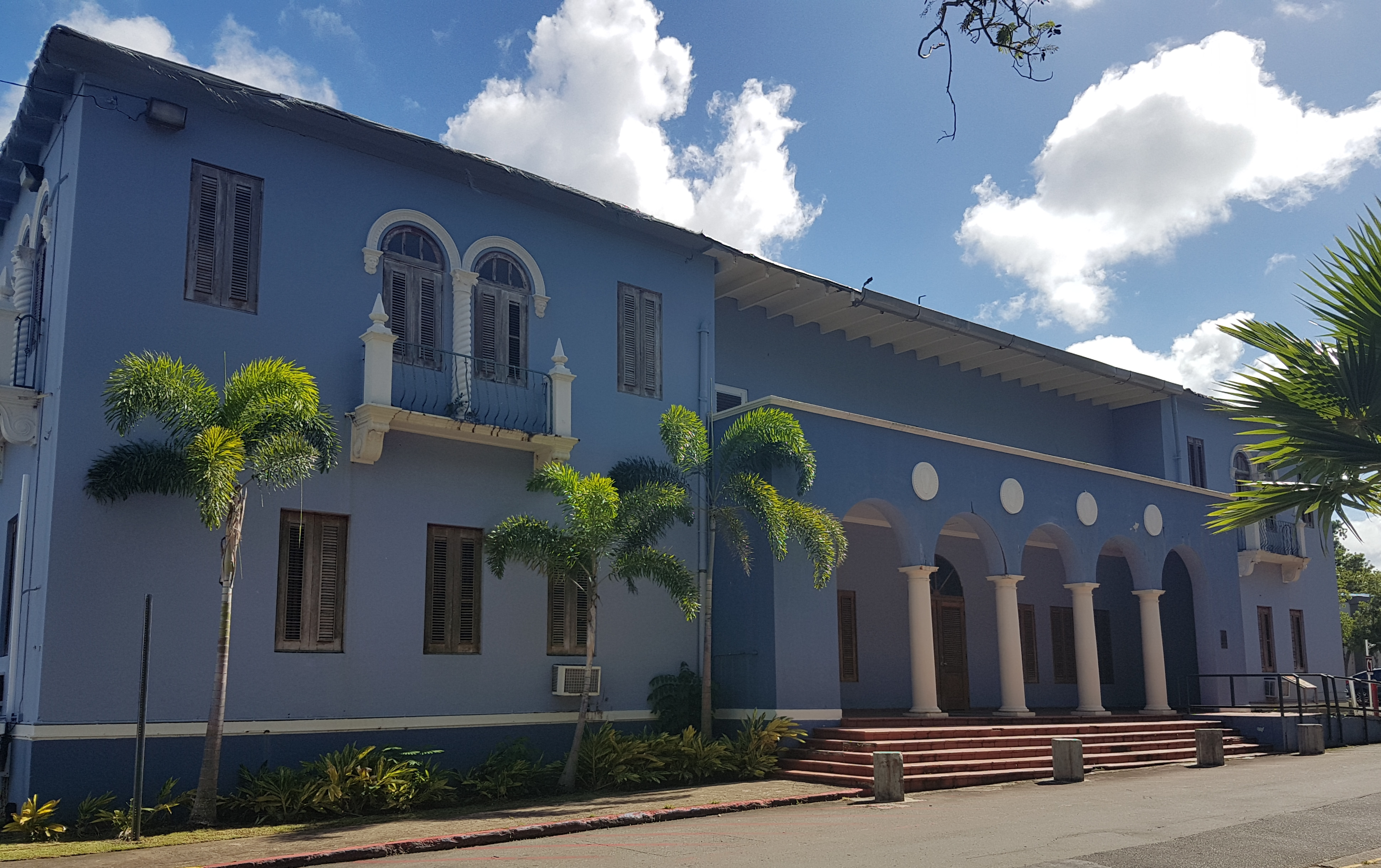 Old "Residencia de Señoritas"at University of Puerto Rico Rio Piedras Campus. This building is currently called Carlota Matienzo and it is now used as Dean of Students.